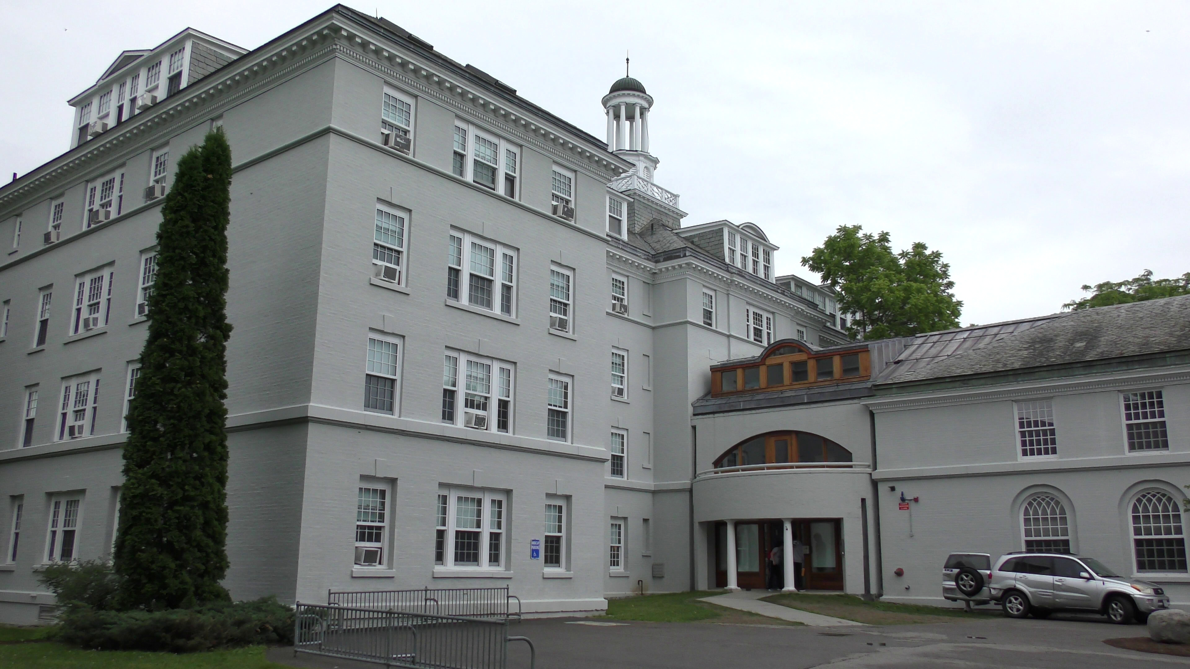 Tour of Middlebury College. Photo by Kenneth Burchfiel